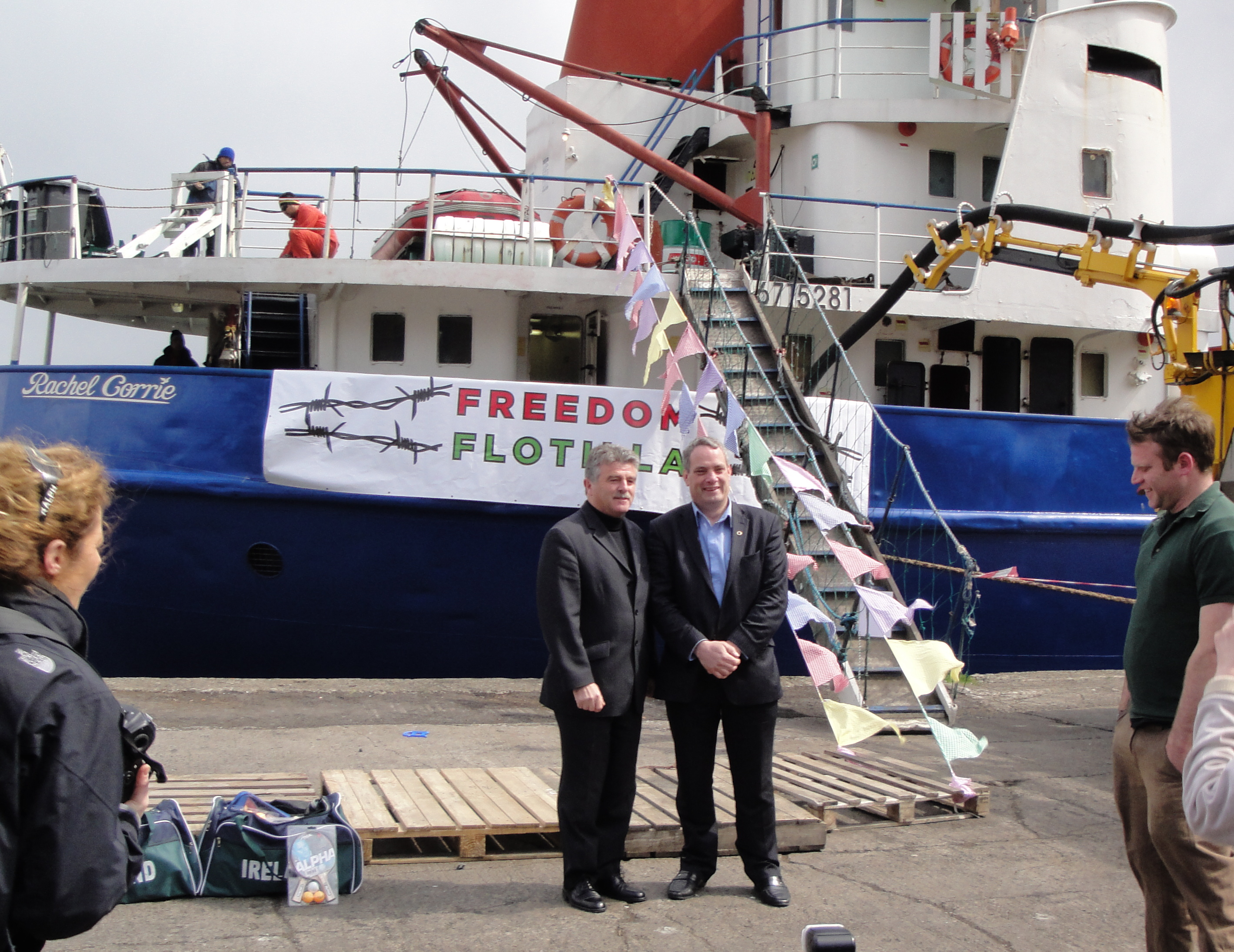 Aengus coming with us